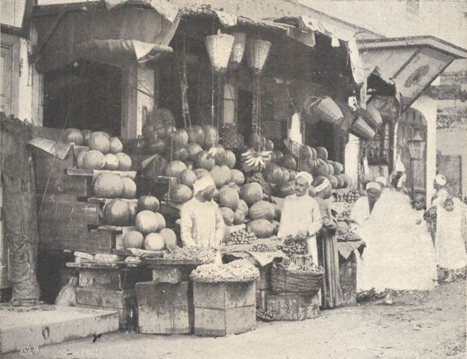 “A FRUIT SHOP IN THE WATER-MELON SEASON.”Shop with many different fruits piled up on boxes, Cairo. Black- and- white photograph.